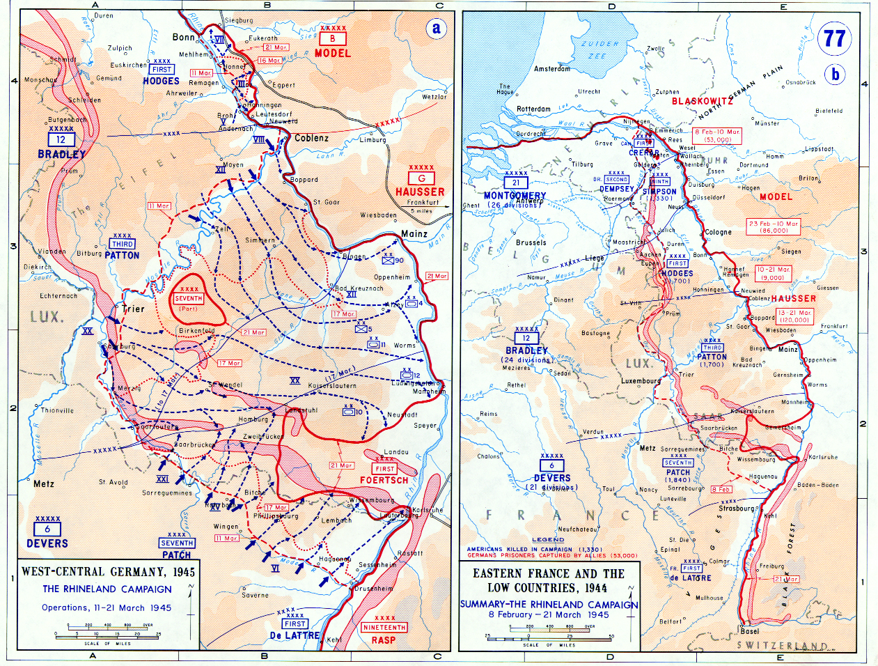 Rhineland Campaign - 11-21 March 1945 Background information: In 1938 the predecessors of what is today The Department of History at the United States Military Academy began developing a series of campaign atlases to aid in teaching cadets a course entitled, "History of the Military Art." Since then, the Department has produced over six atlases and more than one thousand maps, encompassing not only America’s wars but global conflicts as well. In keeping abreast with today's technology, the Department of History is providing these maps on the internet as part of the department's outreach program. The maps were created by the United States Military Academy’s Department of History and are the digital versions from the atlases printed by the United States Defense Printing Agency. We gratefully acknowledge the accomplishments of the department's former cartographer, Mr. Edward J. Krasnoborski, along with the works of our present cartographer, Mr. Frank Martini. Please be aware that these maps are large in file size and may require substantial download times.